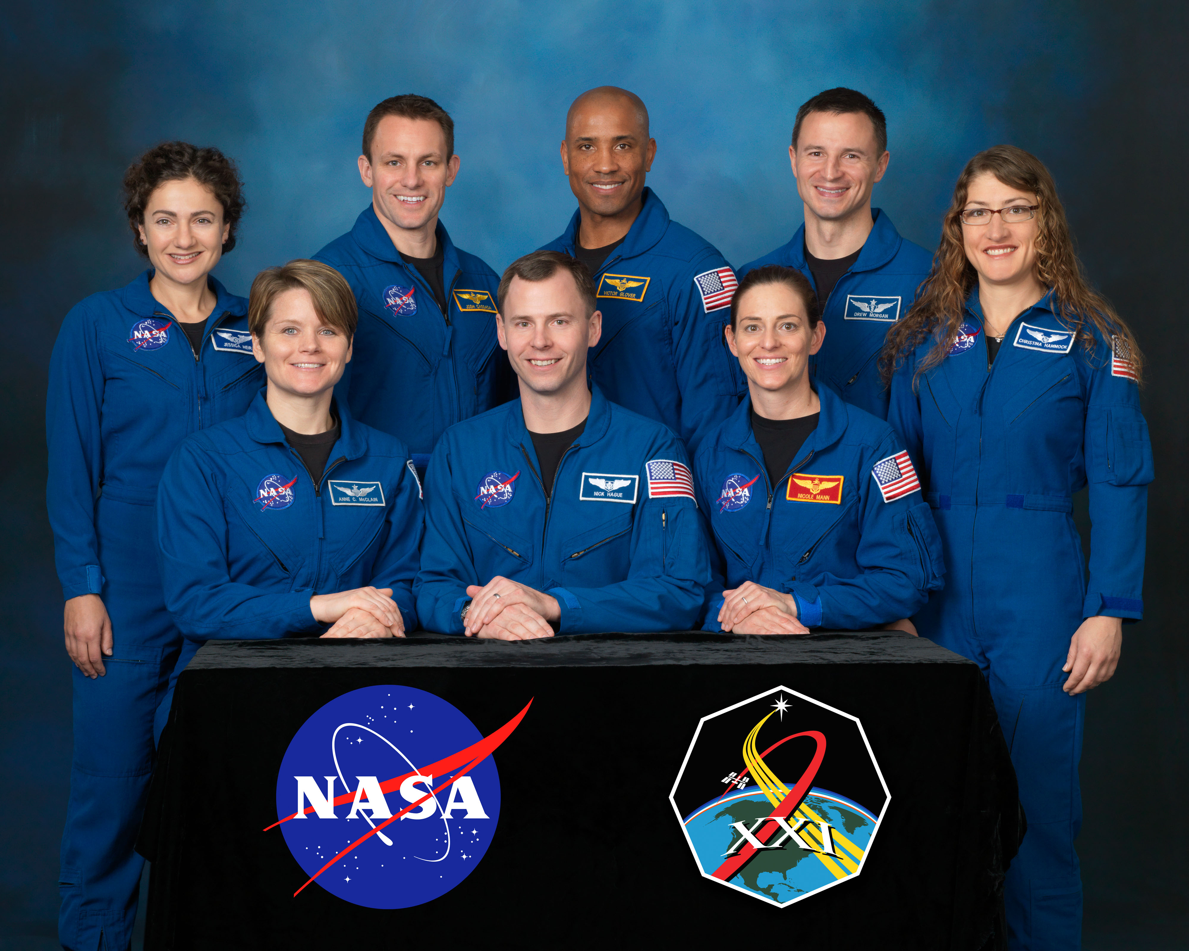 JSC2014-E-008098_alt (10 Jan. 2014) --- The eight-member 2013 class of NASA astronauts take a break from training to pose for their group portrait at NASA's Johnson Space Center. Pictured from the left (front row) are Anne C. McClain, Tyler N. (Nick) Hague and Nicole Aunapu Mann. Pictured from the left (back row) are Jessica U. Meir, Josh A. Cassada, Victor J. Glover, Andrew R. (Drew) Morgan and Christina M. Hammock.